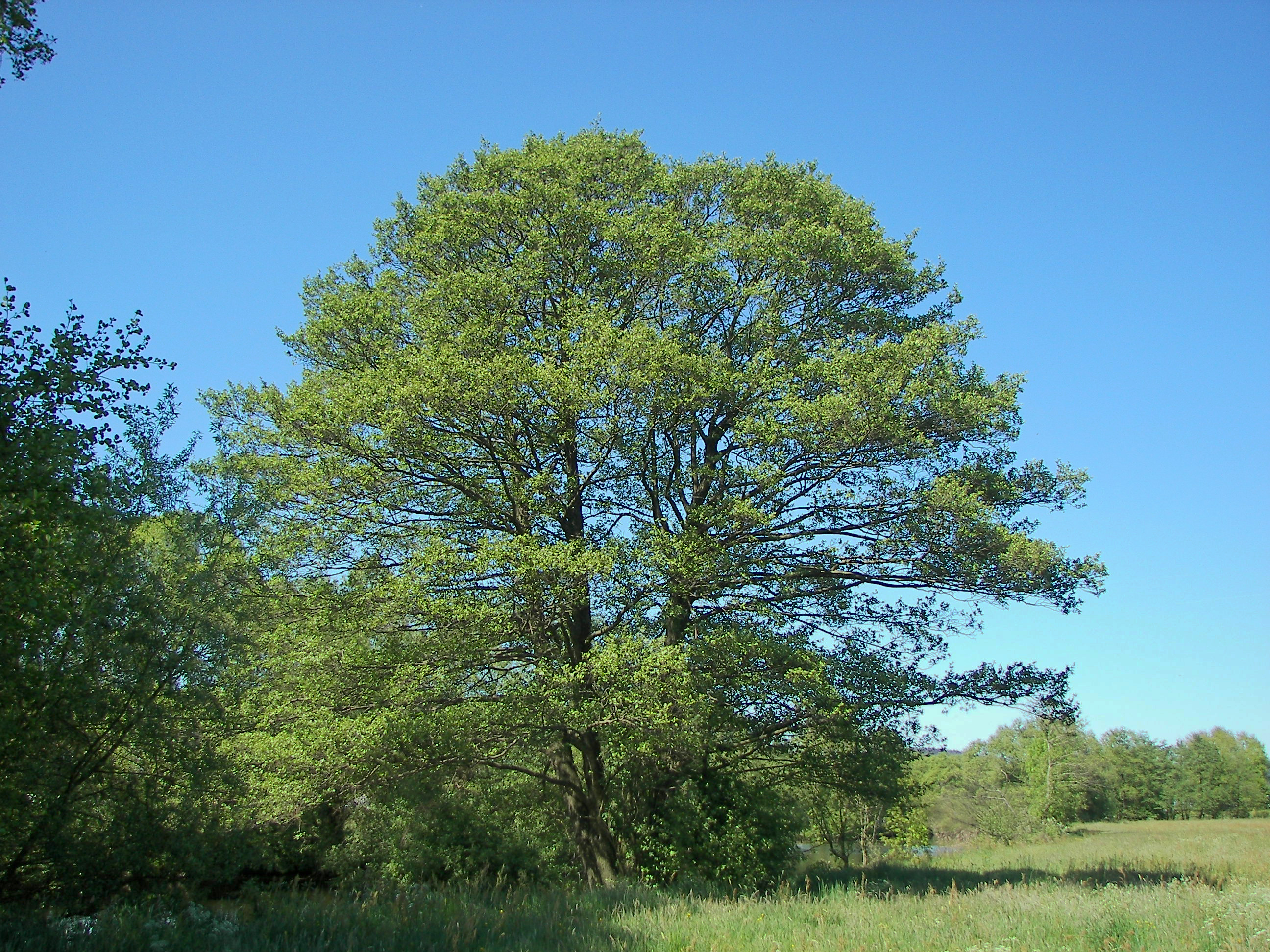 Black alder tree (Alnus glutinosa) in Marburg, Germany.